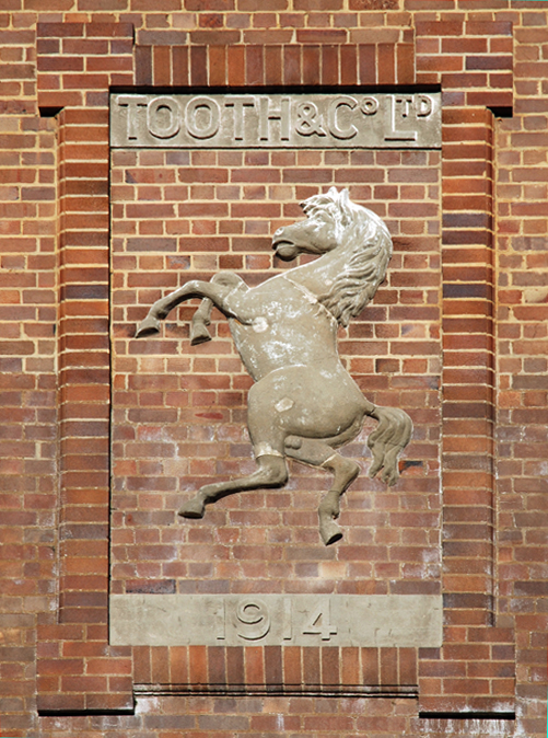 This is the original Tooths "White Horse" emblem. Image was taken from the abandoned brewery works located at Mittagong. The emblem is embedded in the wall of one of the decaying buildings.